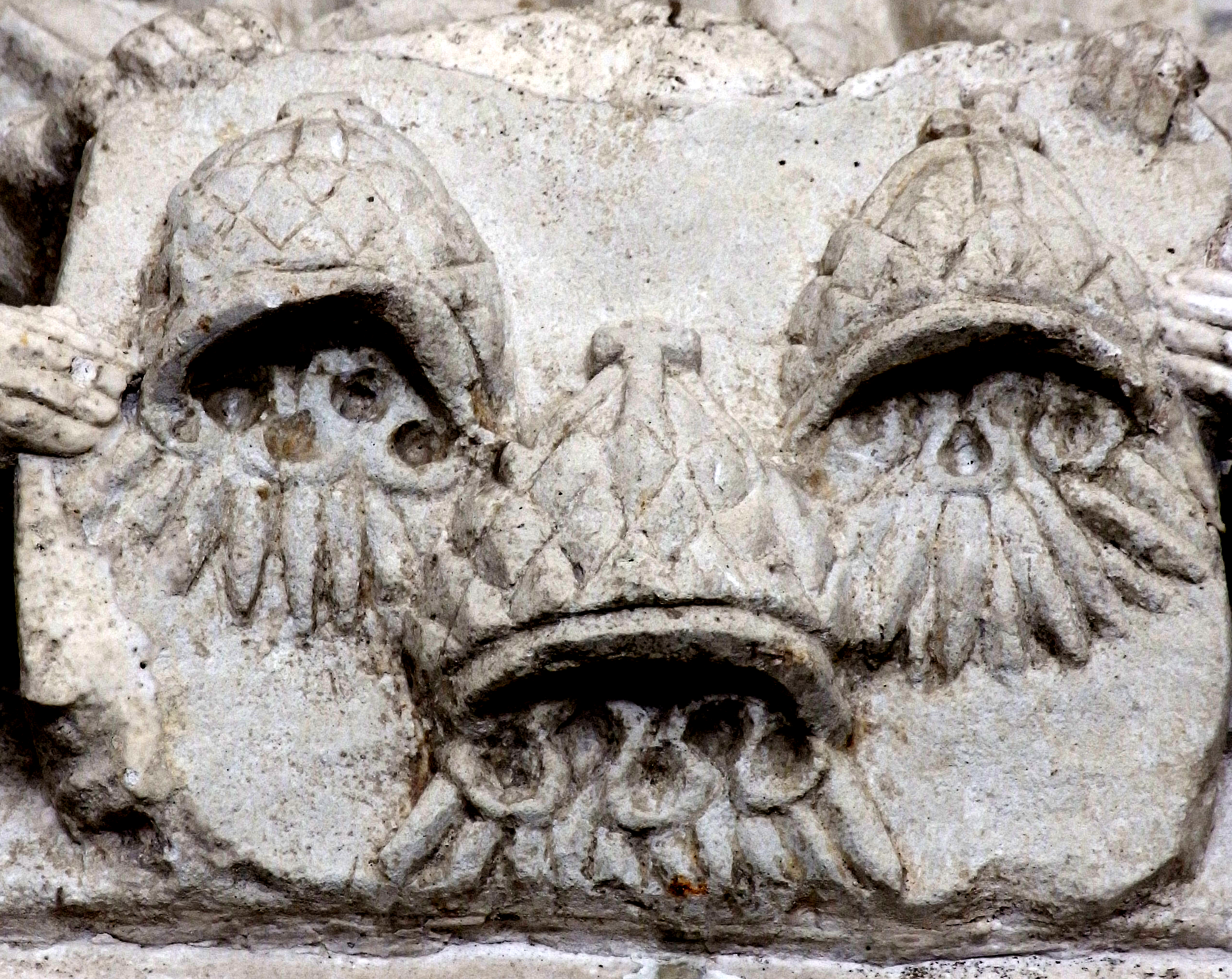 Heraldic escutcheon showing the arms of the Drapers Company (Azure, three clouds radiated proper each adorned with a triple crown or), with the very rarely surviving pre-Reformation angel supporters, the Virgin being the patroness of the Drapers Company. Detail from 1517 relief sculpture in the Greenway Porch, built in 1517 against the south wall of St Peter's Church, Tiverton, Devon, by the wealthy merchant John Greenway (d.1529), a member of the Merchant Adventurers Company and of the Drapers Company